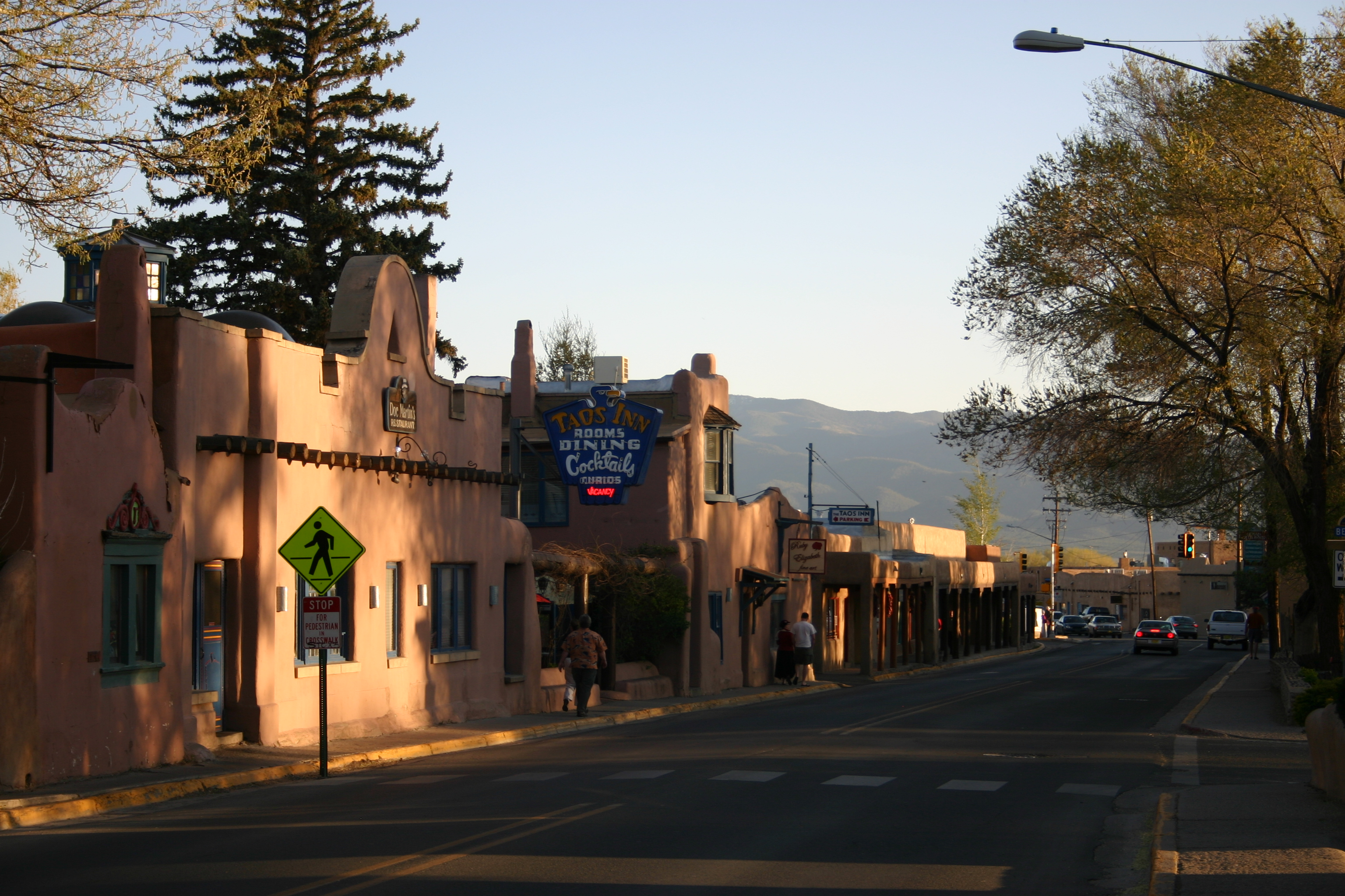 Taos Inn and historic block